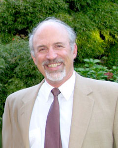 Paul Silver, geophysicist.